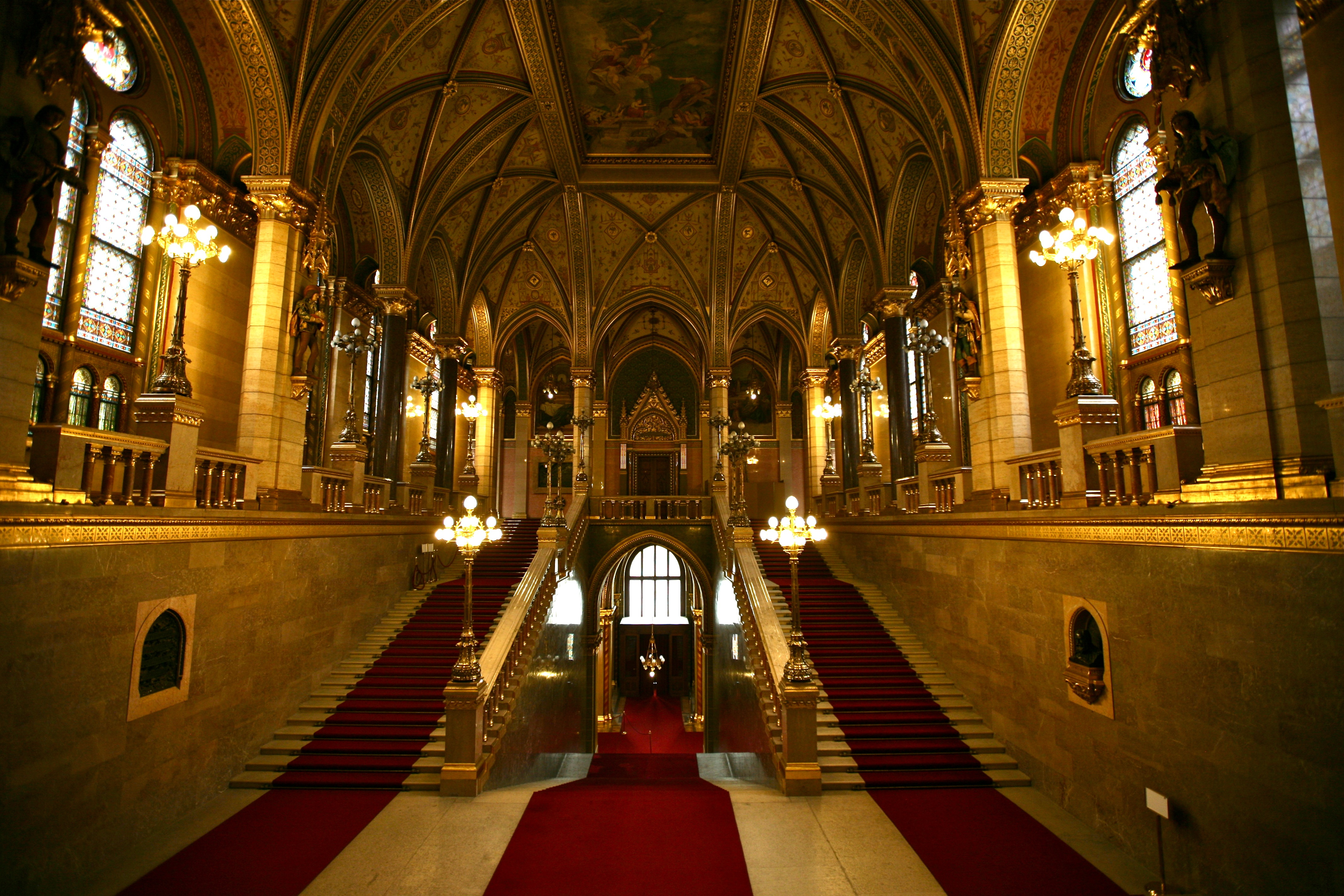 Inside the Parliament